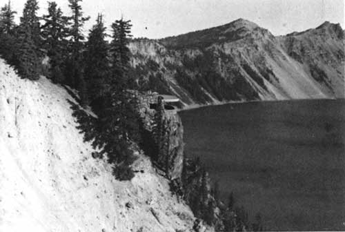 Sinnott Memorial Observation Station, 1981